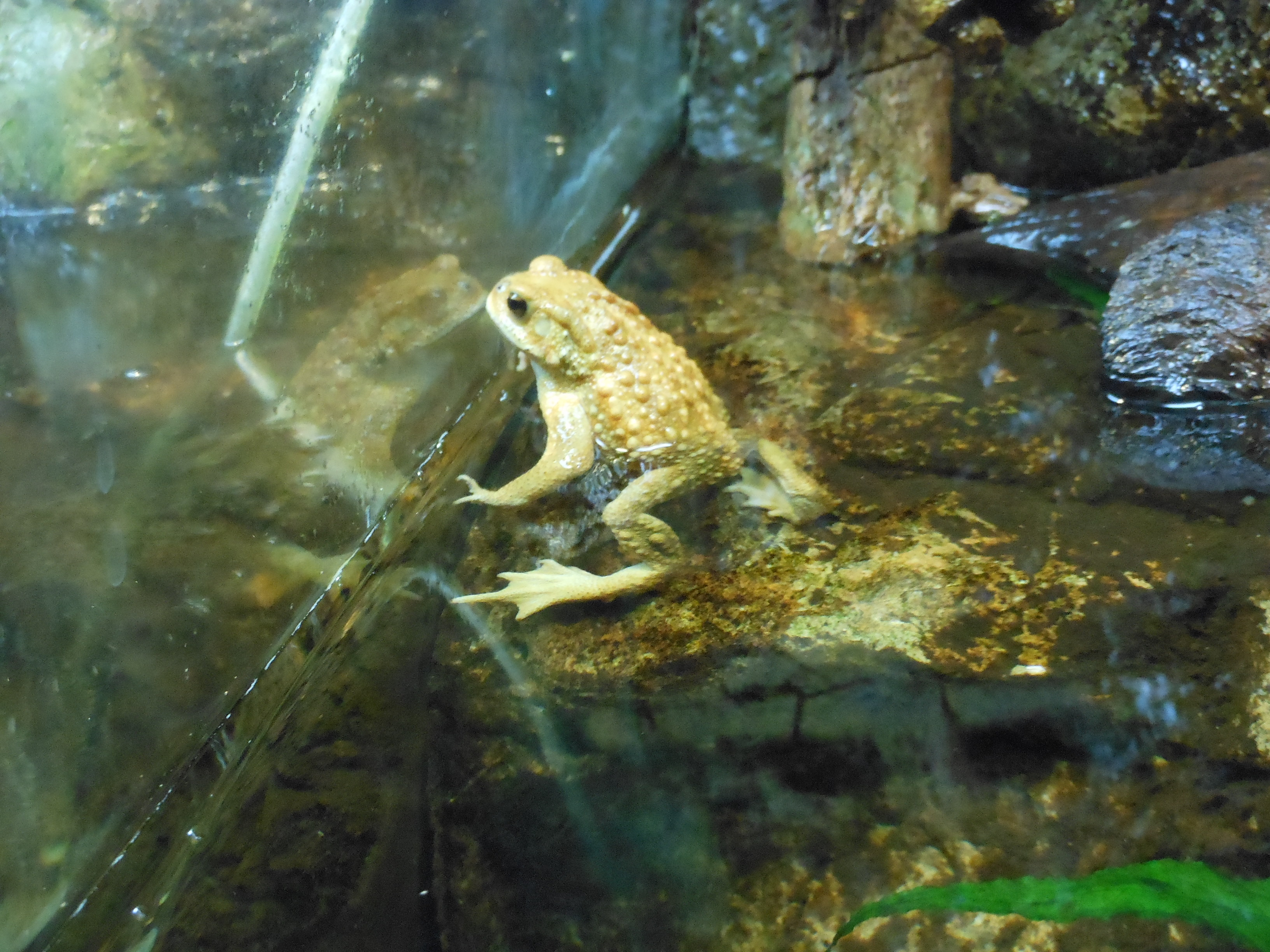 This is the Miyako Toad or Bufo gargarizans miyakonis in Toba Aquarium, Mie, Japan.